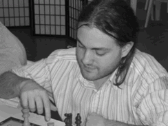 Eros Riccio, chess player